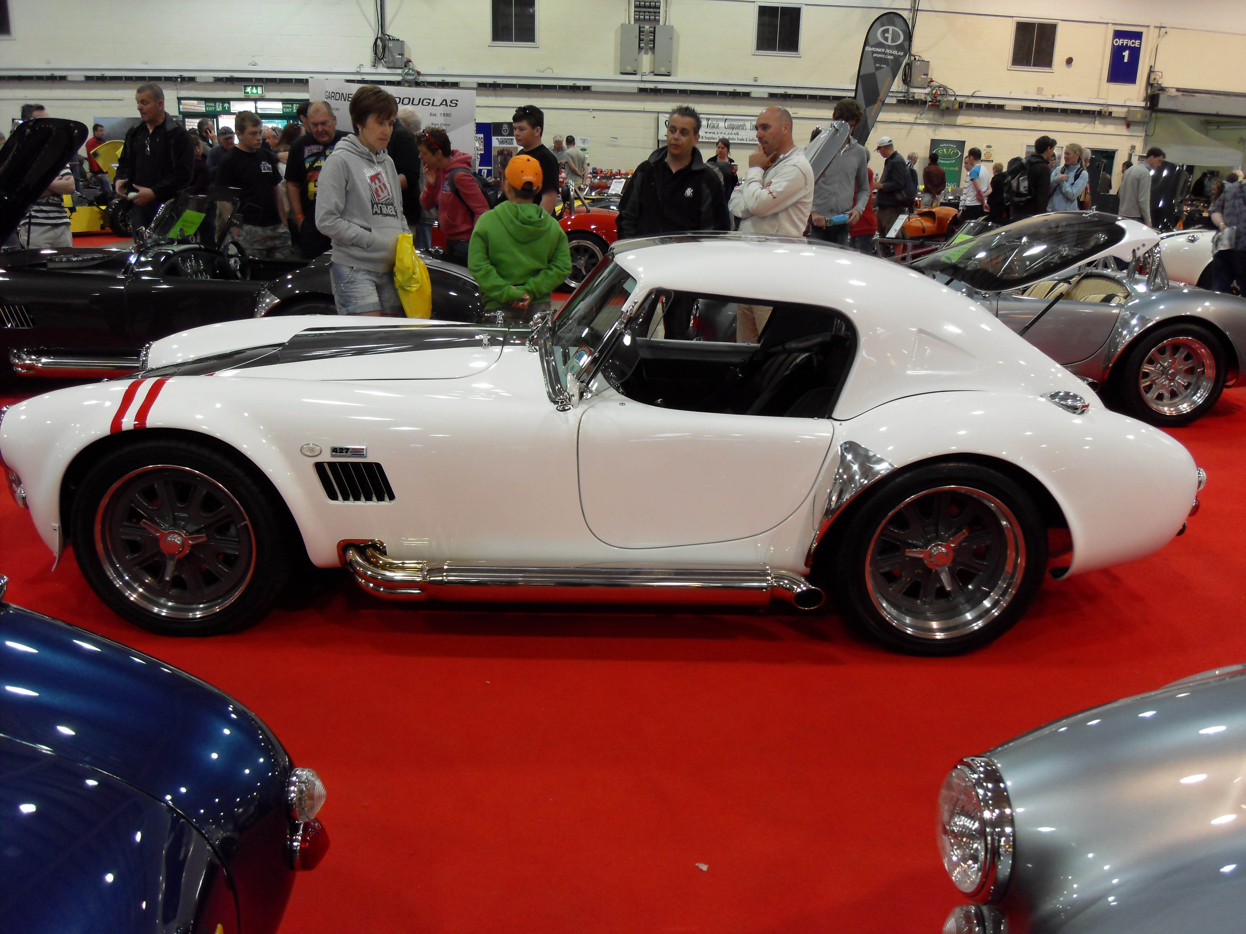 National Kit Car Show Stoneleigh 2011